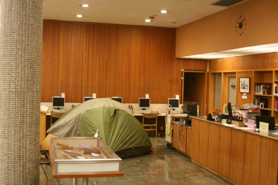 Following recent cuts to library hours and services, Occupy Cal hosted a 3-day study-in of the anthropology library to demand reinstatement of hours and recourses. The occupation was a success, and the occupiers demands were met by the administration.